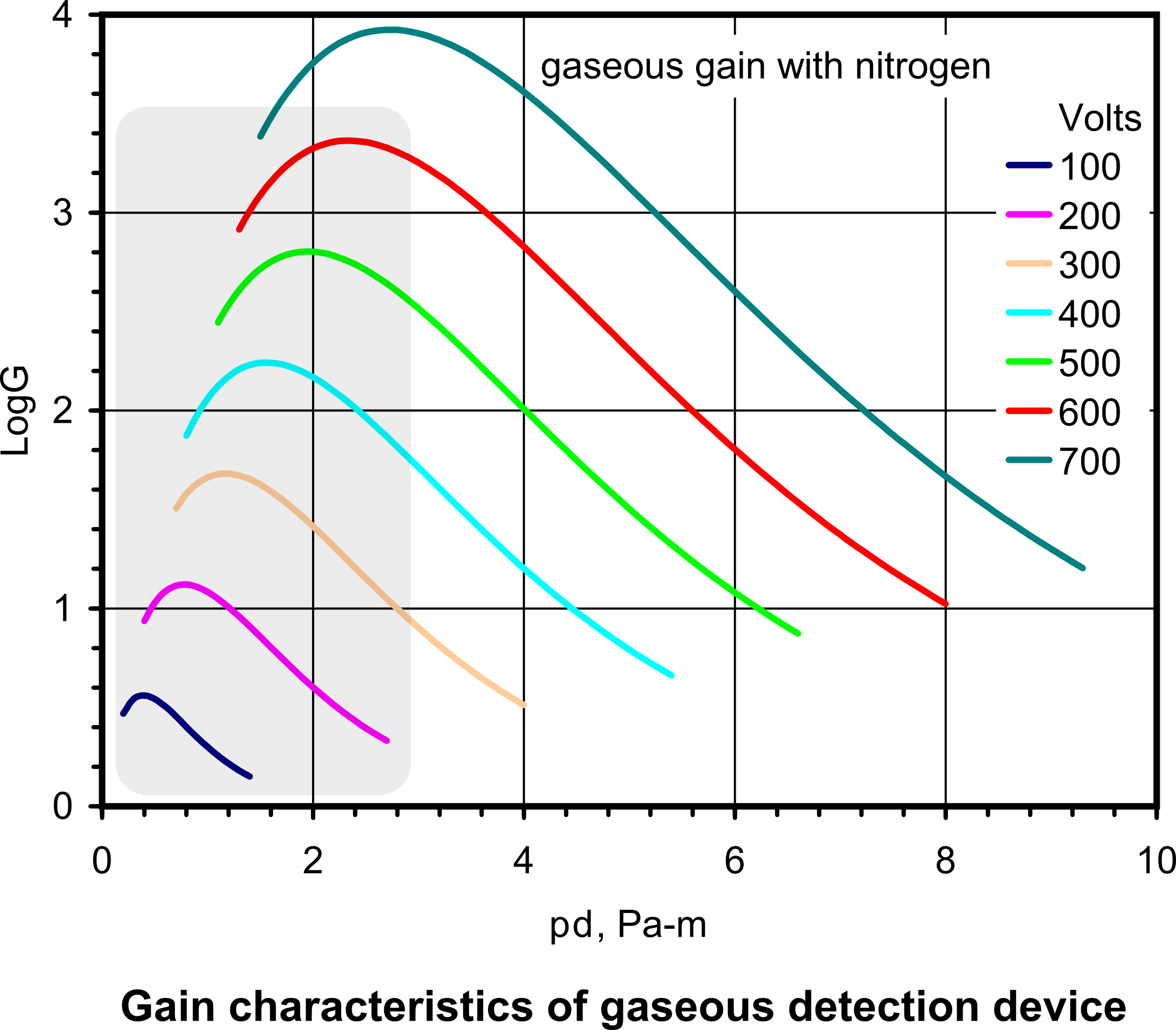 Gain of gaseous detection device at fixed voltages V versus product of distance d times pressure p of nitrogen. (from Gaseous detection device: The gaseous detection device-GDD is a method and apparatus for the detection of signals in the gaseous environment of an environmental scanning electron microscope (ESEM) and all scanned beam type of instruments that allow a minimum gas pressure for the detector to operate.)